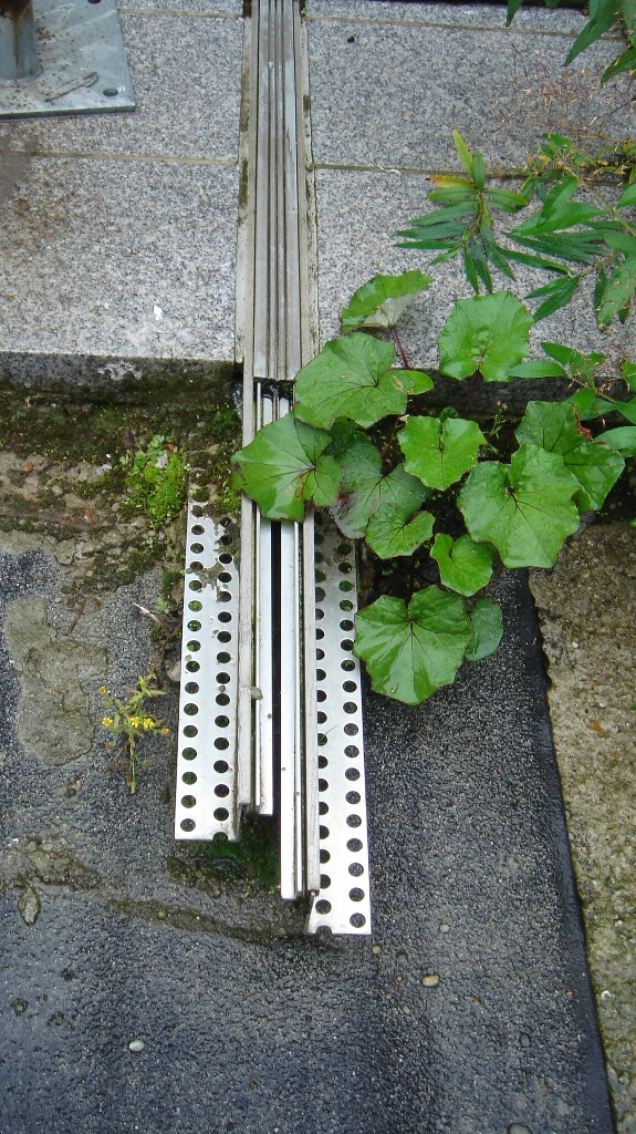 Thermal expansion joint in a street surface.